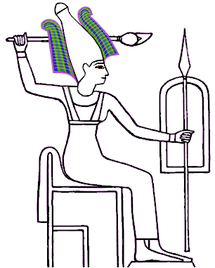 Warrior Goddess Anat